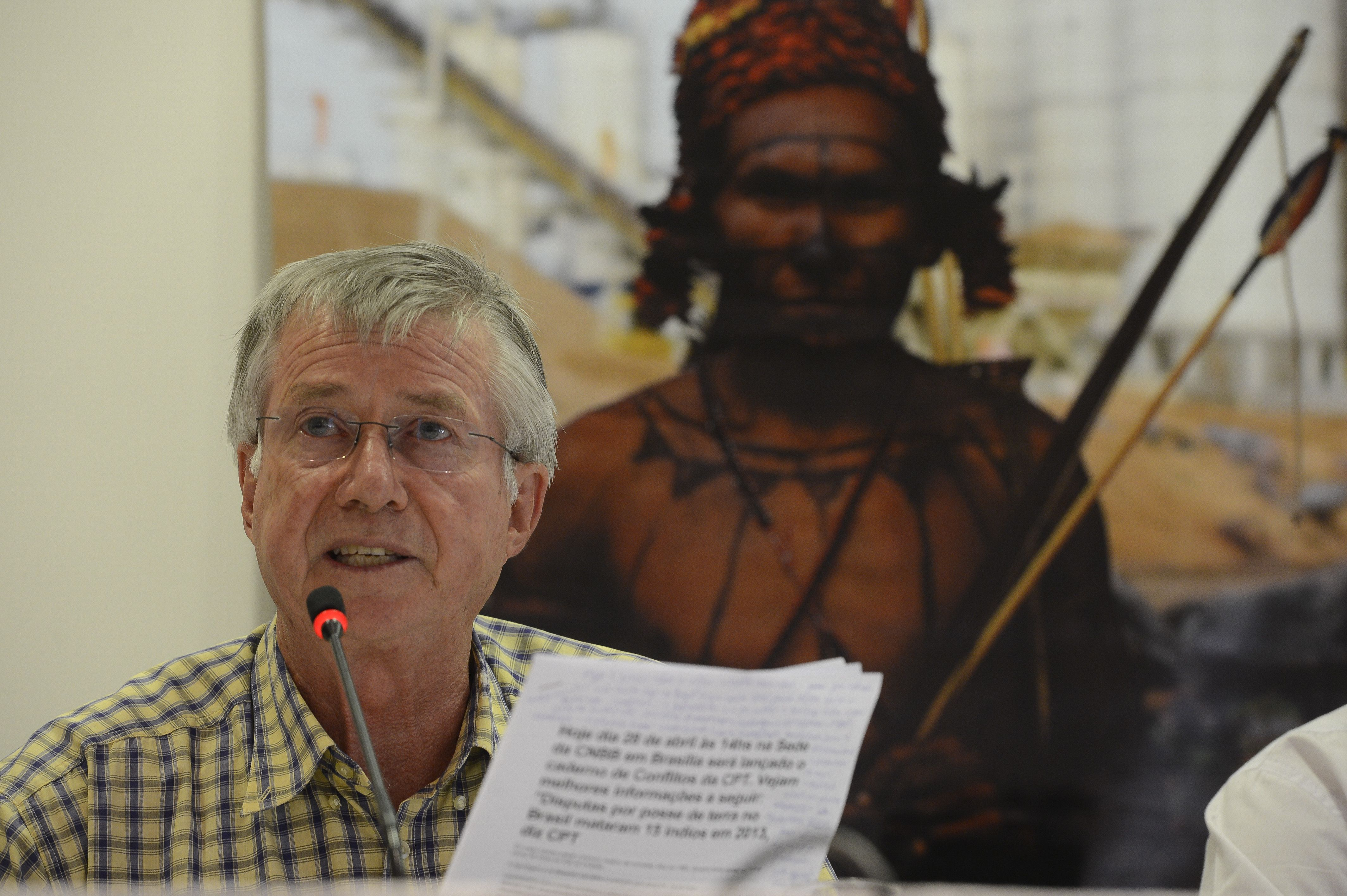 Photo by Fabio Rodrigues Pozzebom/Agência Brasil - CCBY3.0